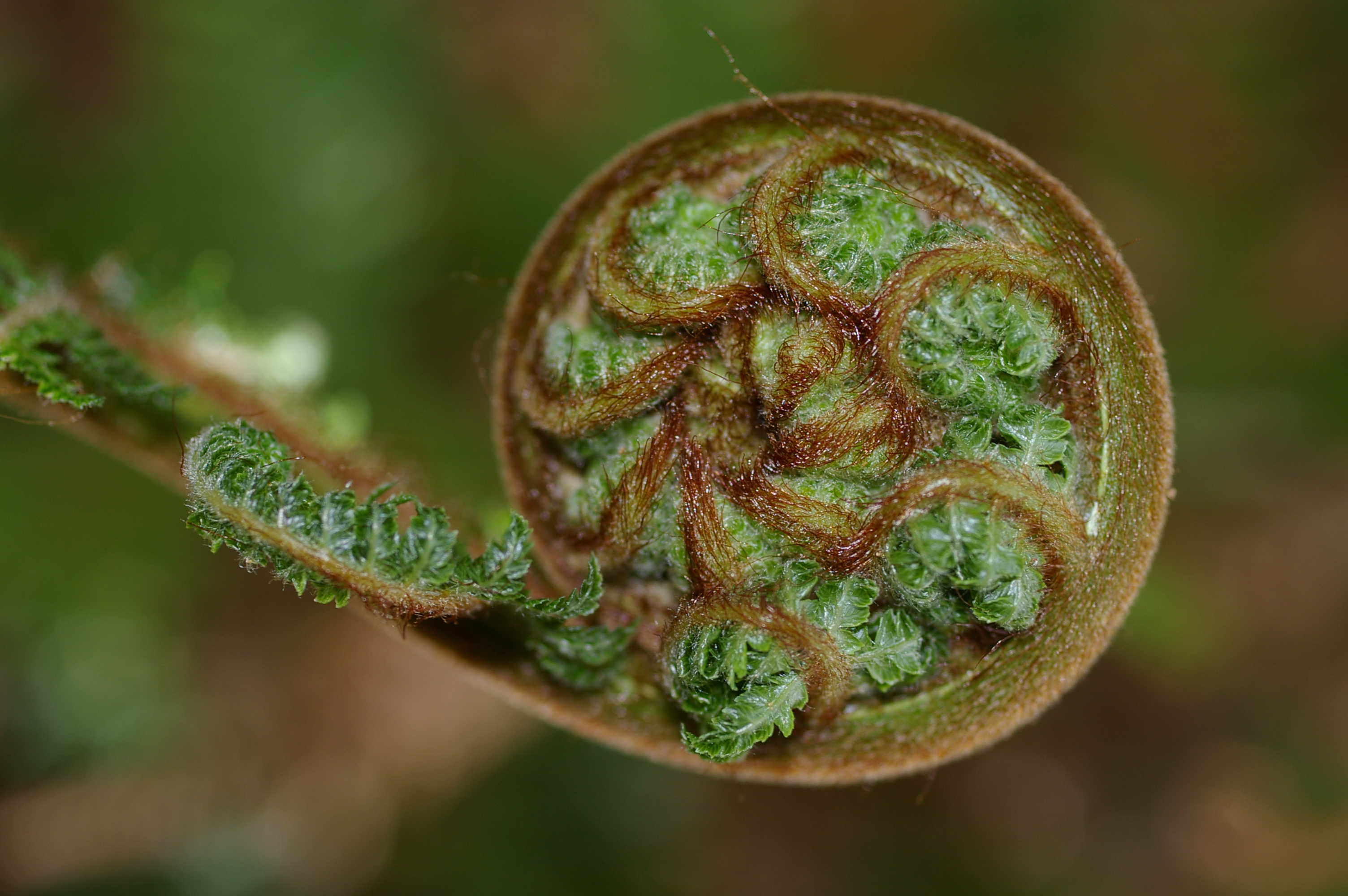 Closeup (macro) photograph of a koru (fern) unfurling. Taken in New Zealand Taken with a Pentax istDS with a 50mm macro lens.